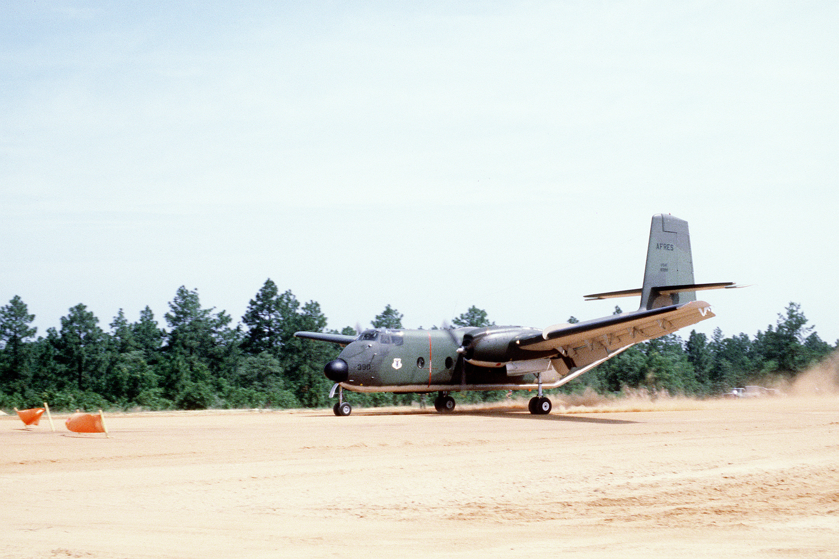 A U.S. Air Force Reserve DeHavilland C-7A Caribou (s/n 61-2390) from the 700th Airlift Squadron, 94th Airlift Wing, makes an assault landing on an unpaved strip at Pope Air Force Base, North Carolina (USA), during the "Volant Rodeo 1981" competition on 7 June 1981. This aircraft was sold to Spain in September 1982 (serial T.9-27, later 371-07).